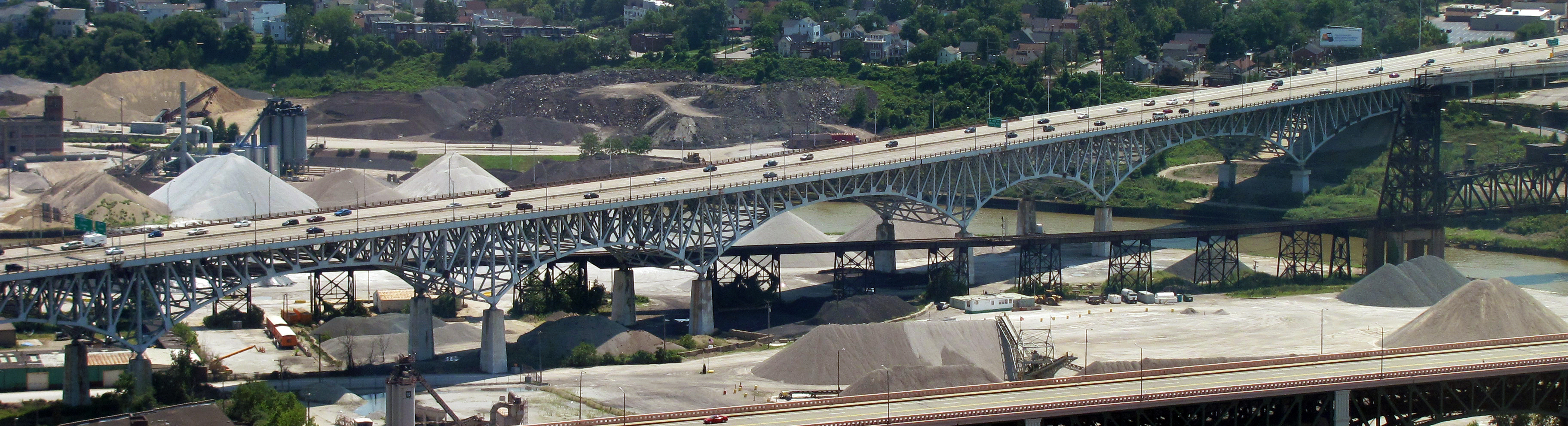 The Innerbelt Bridge in Cleveland, as seen from the Terminal Tower observation deck.